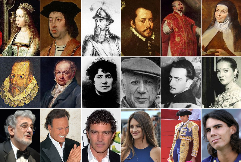 Collage of photos of 18 Spanish known figures. Isabella of Castile, Ferdinand II of Aragon, Francisco Pizarro, Hernán Cortés, Ignatius of Loyola, Teresa of Ávila, Miguel de Cervantes, Francisco Goya, Rosalía de Castro, Pablo Picasso, Salvador Dalí, Sara Montiel, Placido Domingo, Julio Iglesias, Antonio Banderas, Penélope Cruz, Cayetano Rivera Ordóñez, Rafael Nadal